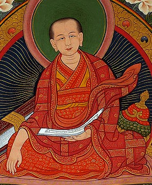 Chekawa Yeshe Dorje (b.1101 - d.1175) - famous author of Training the Mind in Seven Points